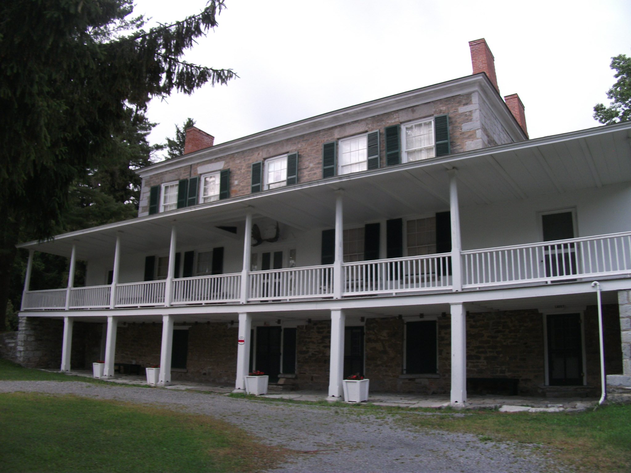 Constable Hall — in Constableville, Lewis County, New York. Completed in 1819, in the Federal style.